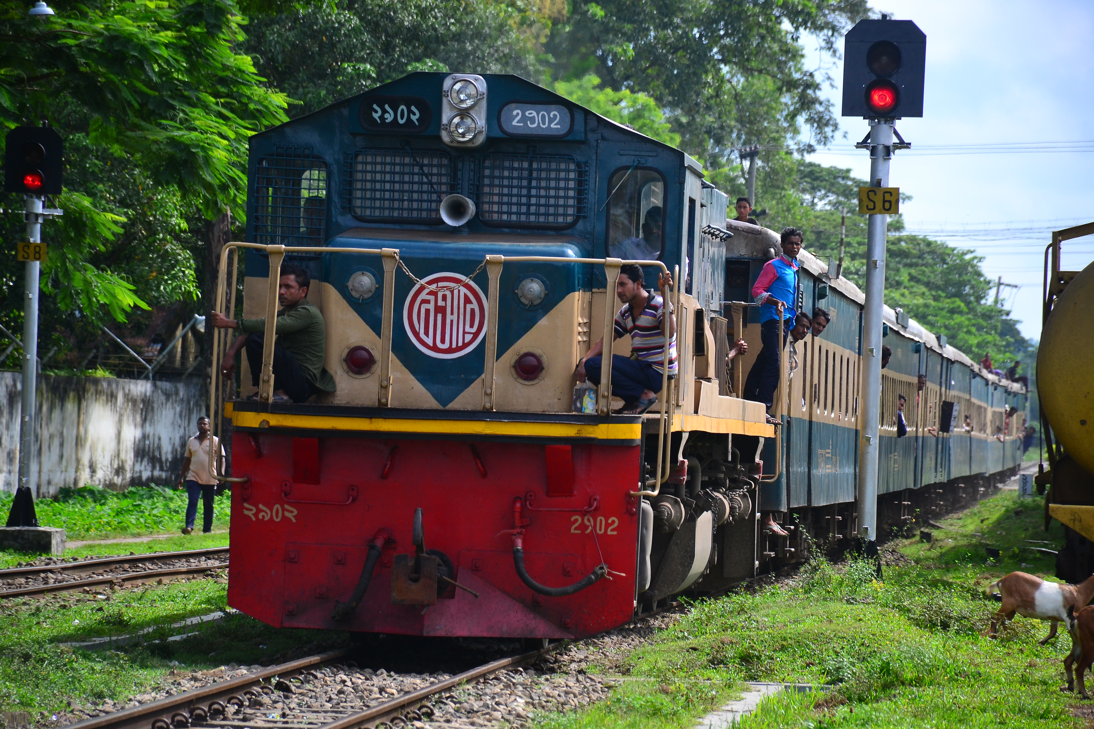 Kalni Express entering Srimangal